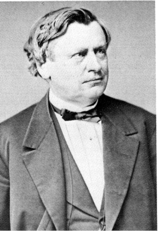 Hermann Theodor Hettner, German Critic